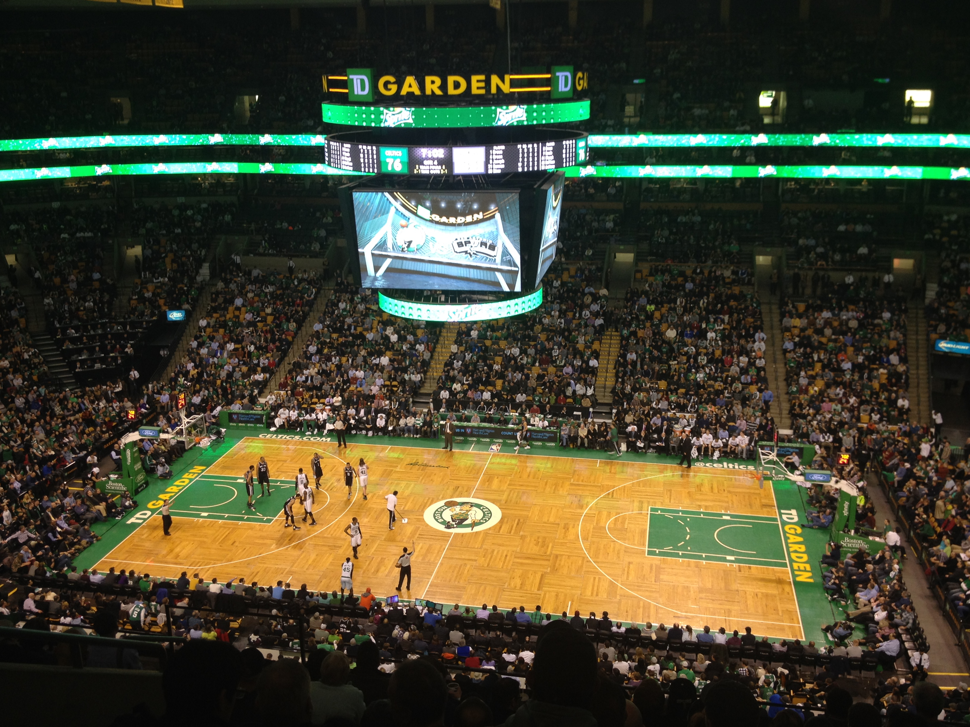 NBA: Celtics vs Spurs, TD Garden, Boston.